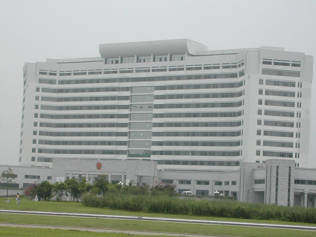 Taizhou Municipal Goverment Building 中文（中国大陆）: 台州市政府大楼